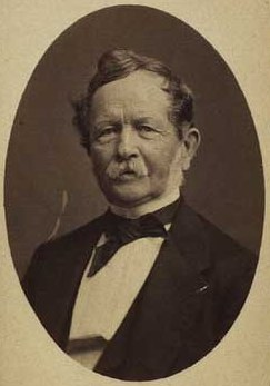 Frederik Anton Adolph Schepelern (1796-1883), Danish civil servant, lithographer, and drawing master